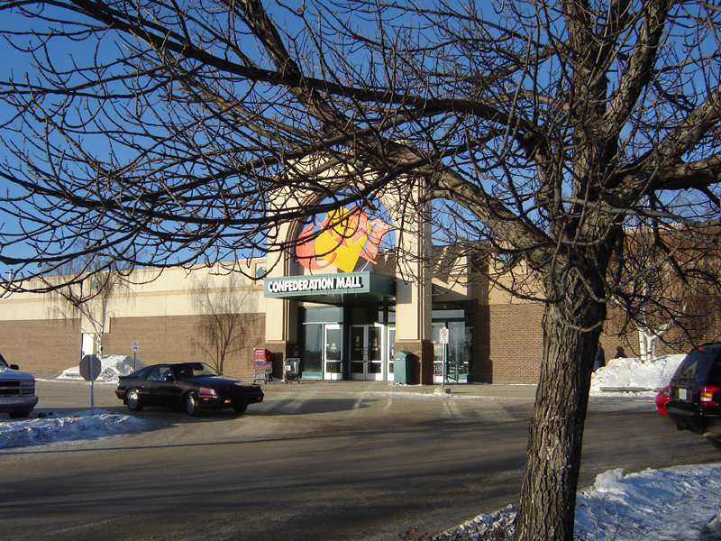 Confederation Mall, Confederation Suburban Centre, Confederation SDA, Saskatoon, Saskatchewan, Canada